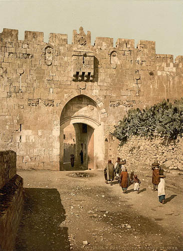 Lions gate, end of the 19th century